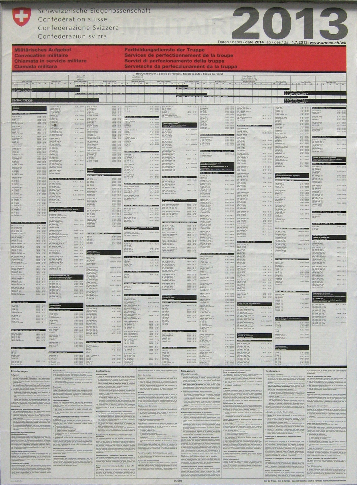 Calendar of military service engagements, Switzerland.